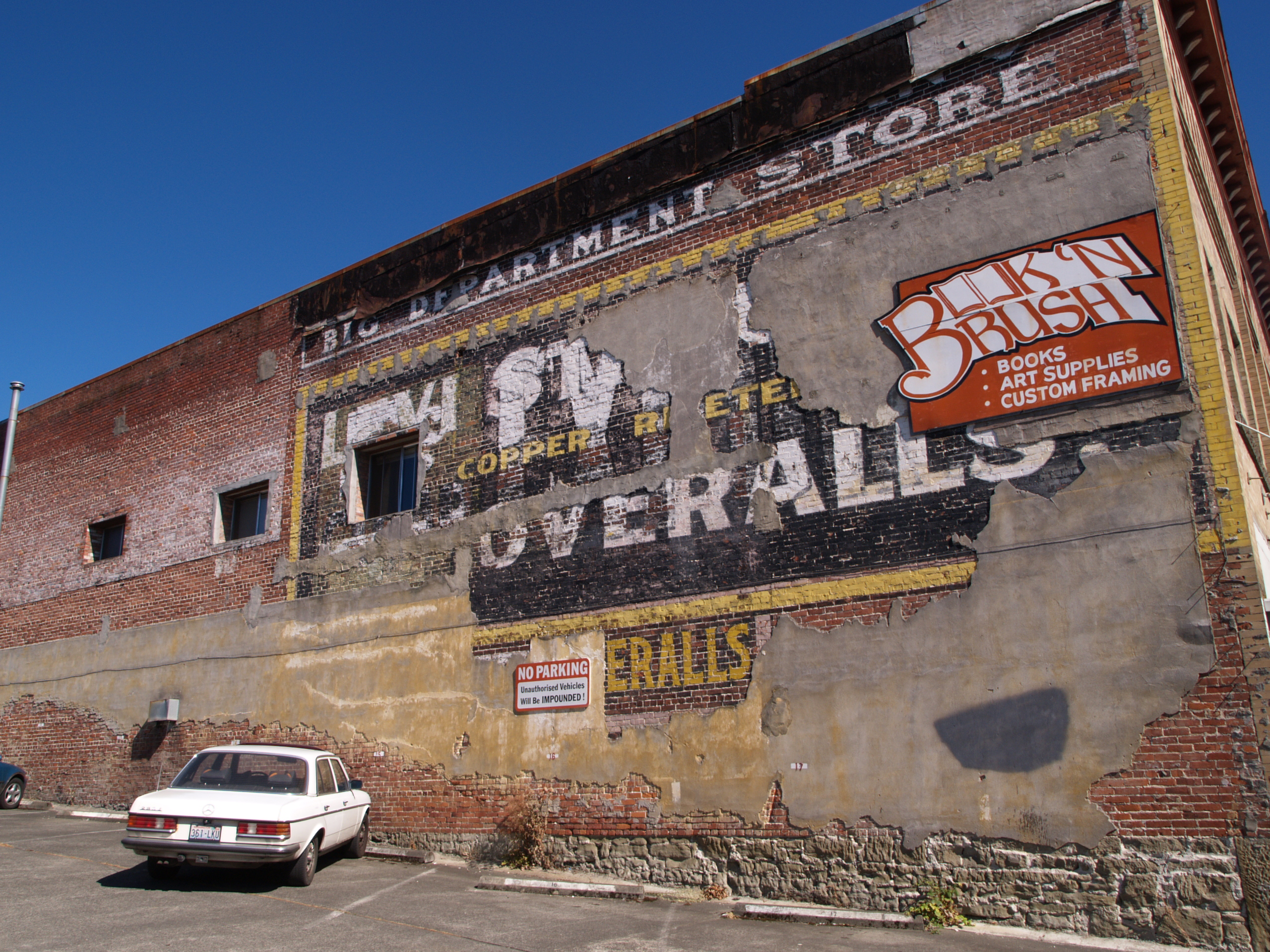 "Big department store" ghost sign in Chehalis, Washington.